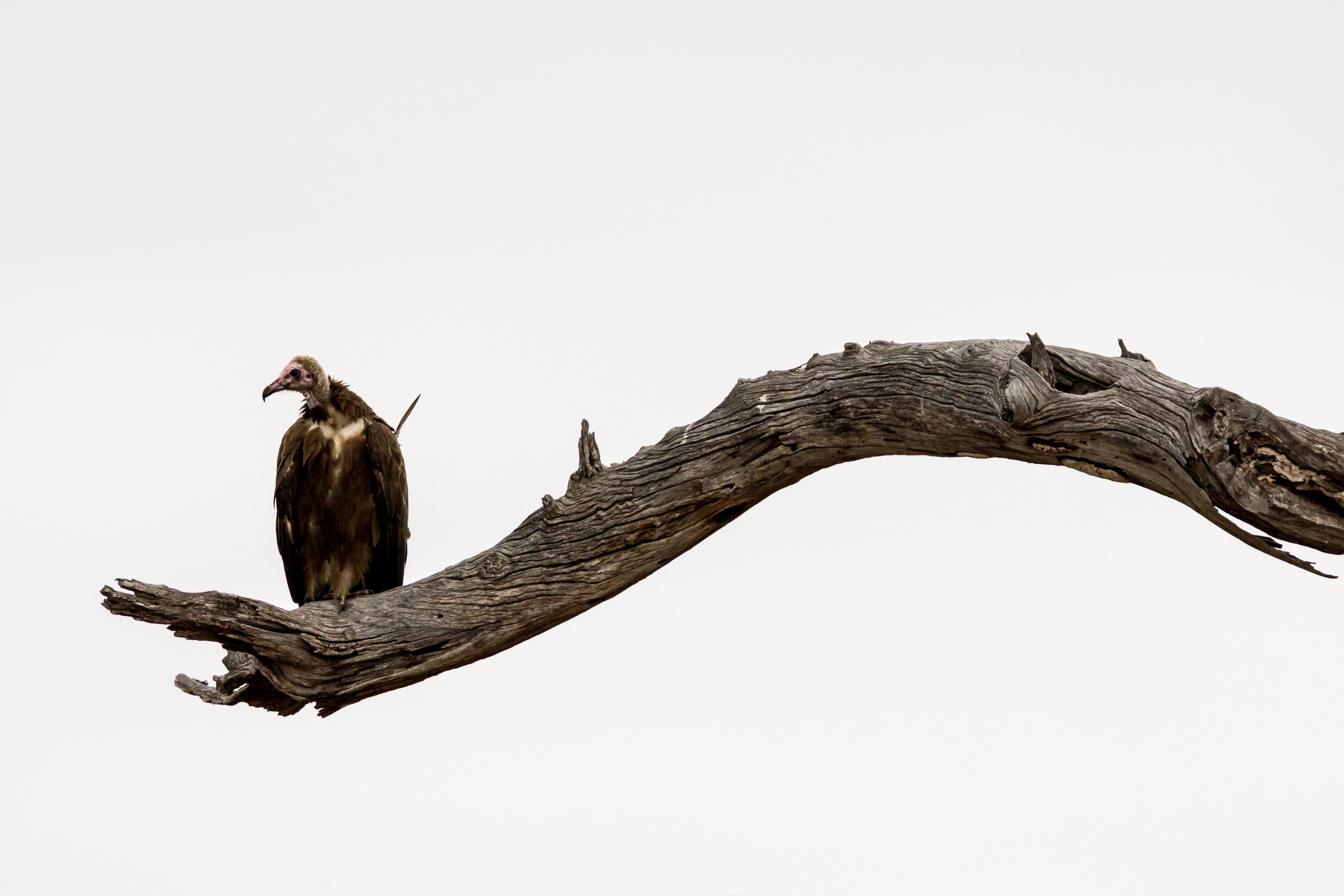 An African Hooded Vulture sitting in a dead tree on Kruger National Park, South Africa.